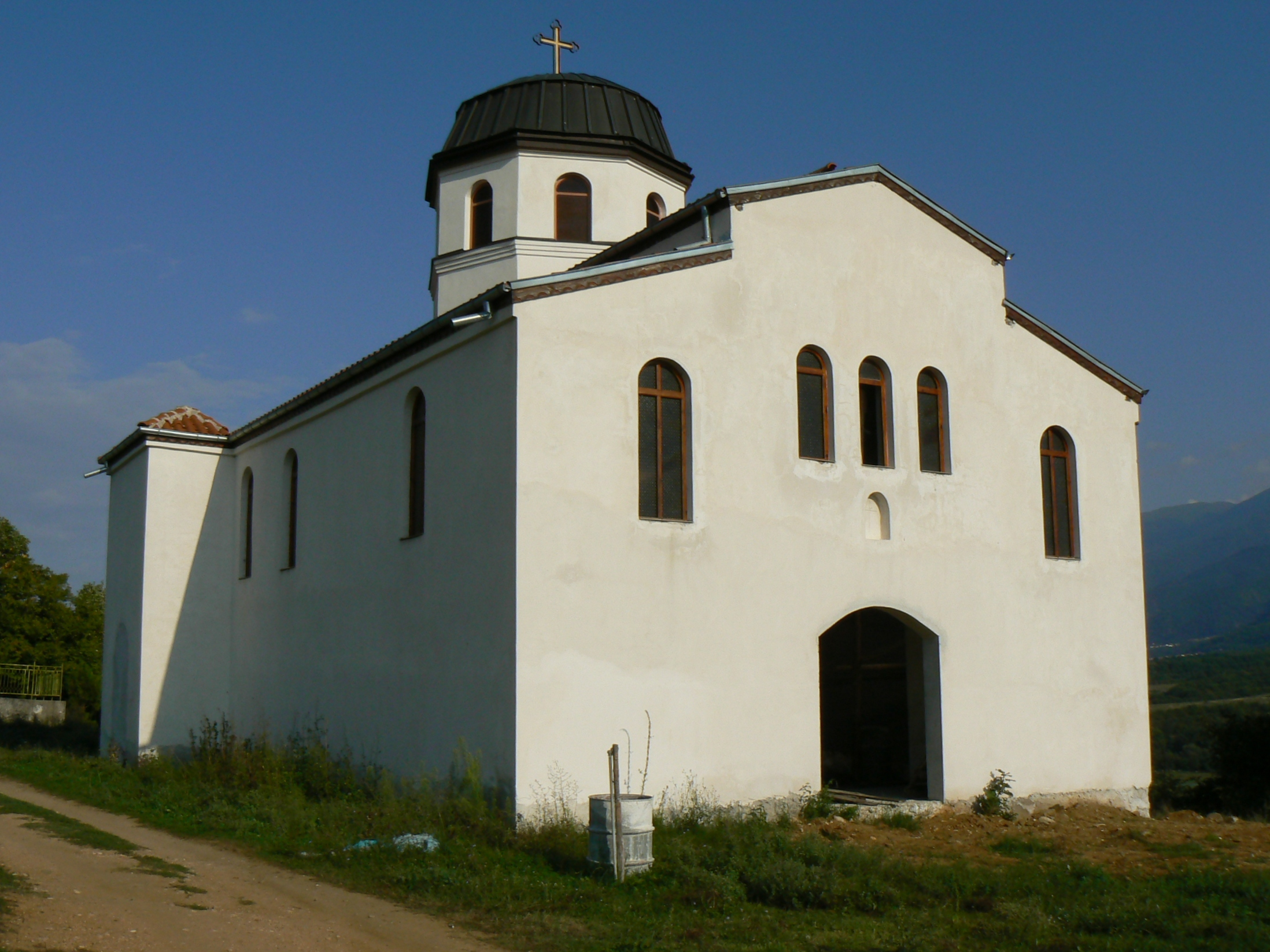 Newly constructed church in village Strumeshnitsa, Bulgaria